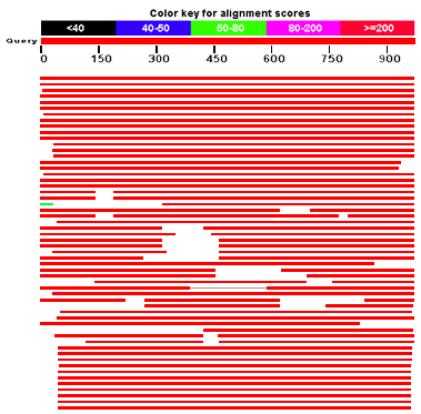 This is a screen shot of BLAST results for protein CCDC132.